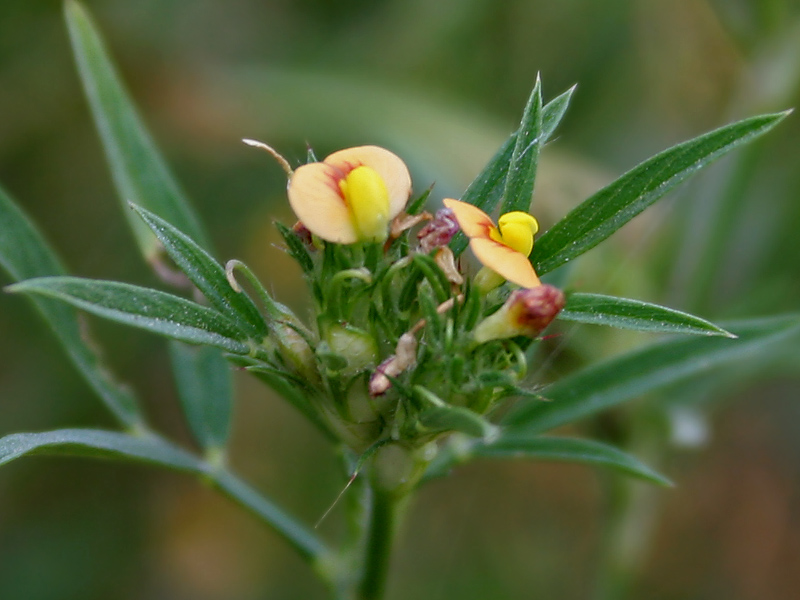 Hamata Stylosanthes fruticosa syn. Stylosanthes mucronata in Hyderabad, India.